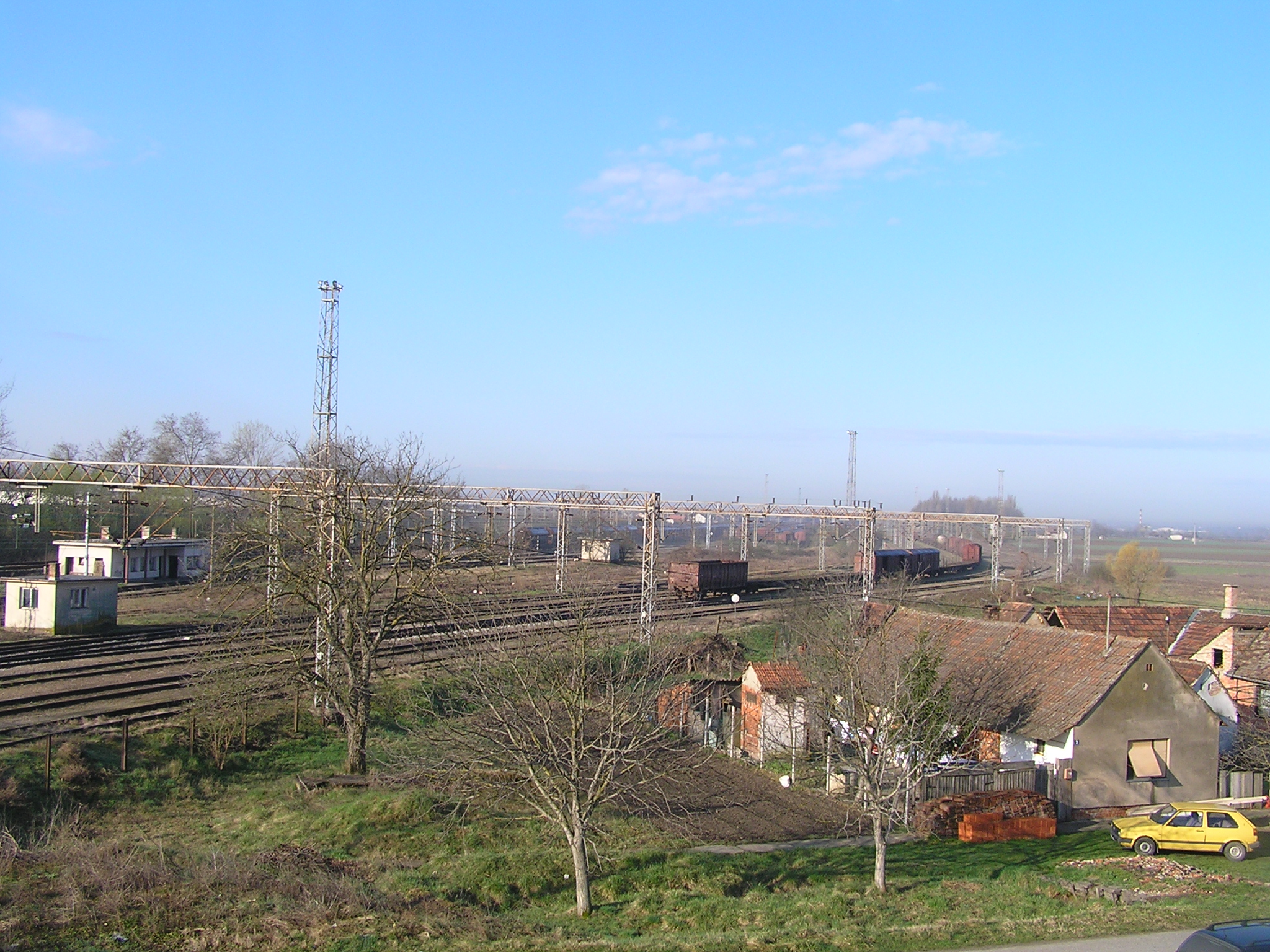 Vinkovci Teretni kolodvor (freight station), view from the passenger bridge. Northside of the bridge, west view.